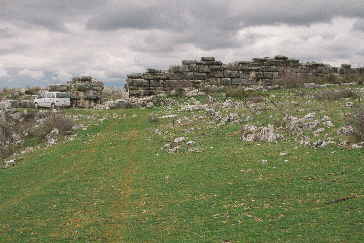 These are the remains of the outer walls of the ancient Illyrian city Daorson, located in the province of Herzegovina.